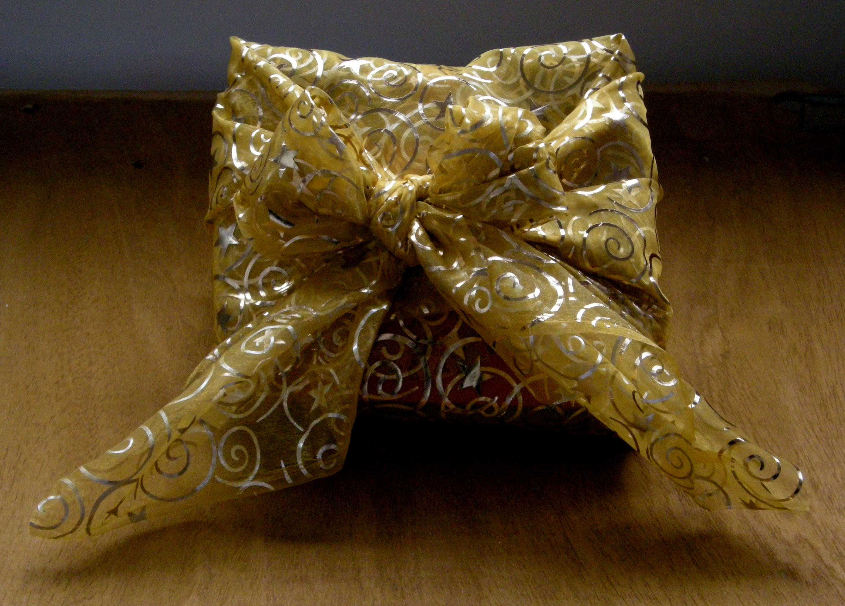 Christmas gift wrapped in furoshiki style (Vienna, Austria).